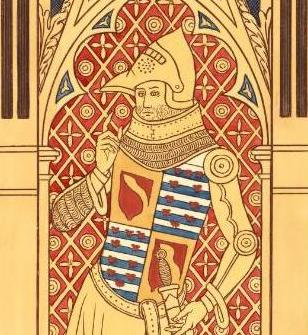 A portrait from the Welsh Portrait Collection at the National Library of Wales. Depicted person: Laurence Hastings, 1st Earl of Pembroke – English noble